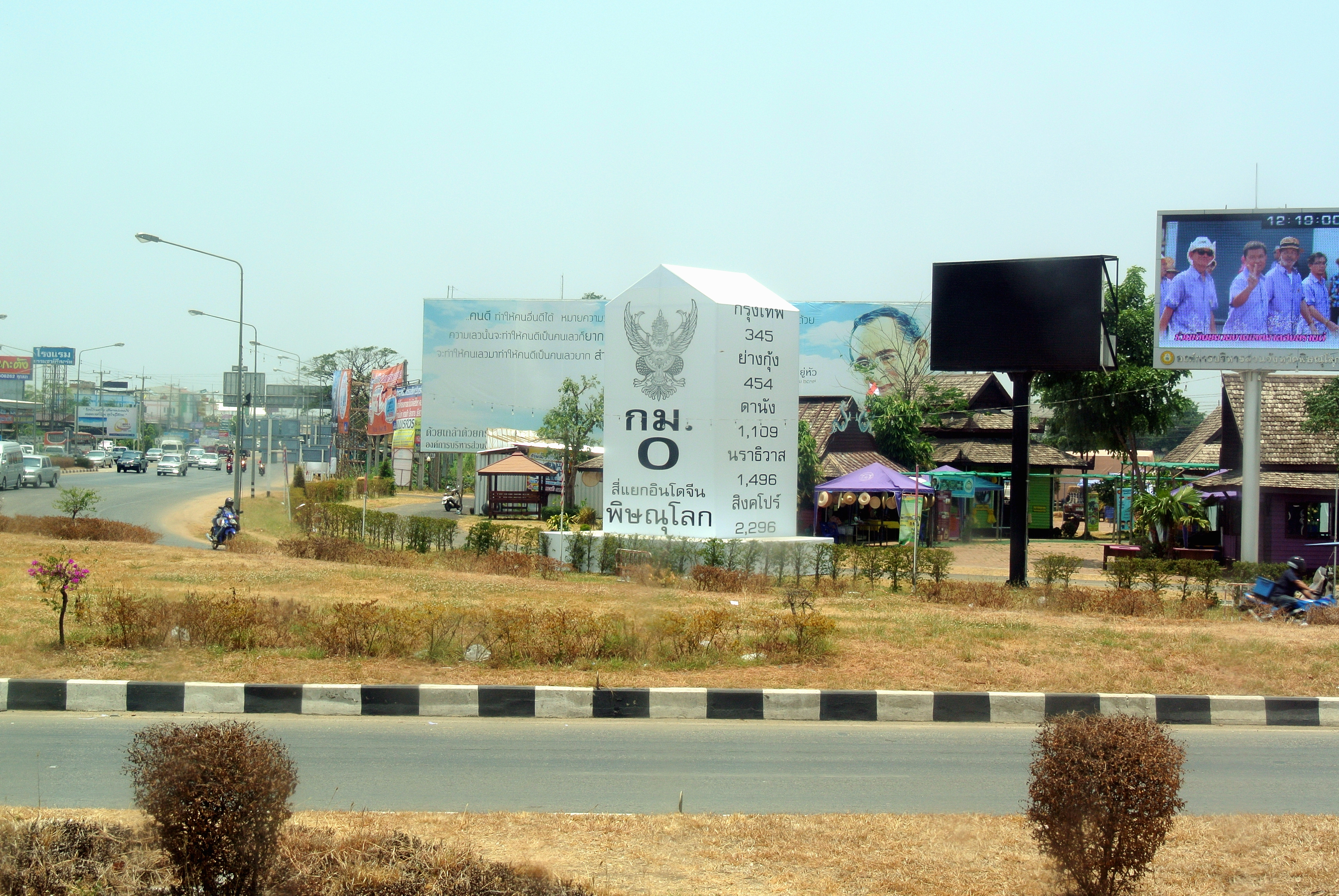 A kilometre zero milestone in northern Thailand.